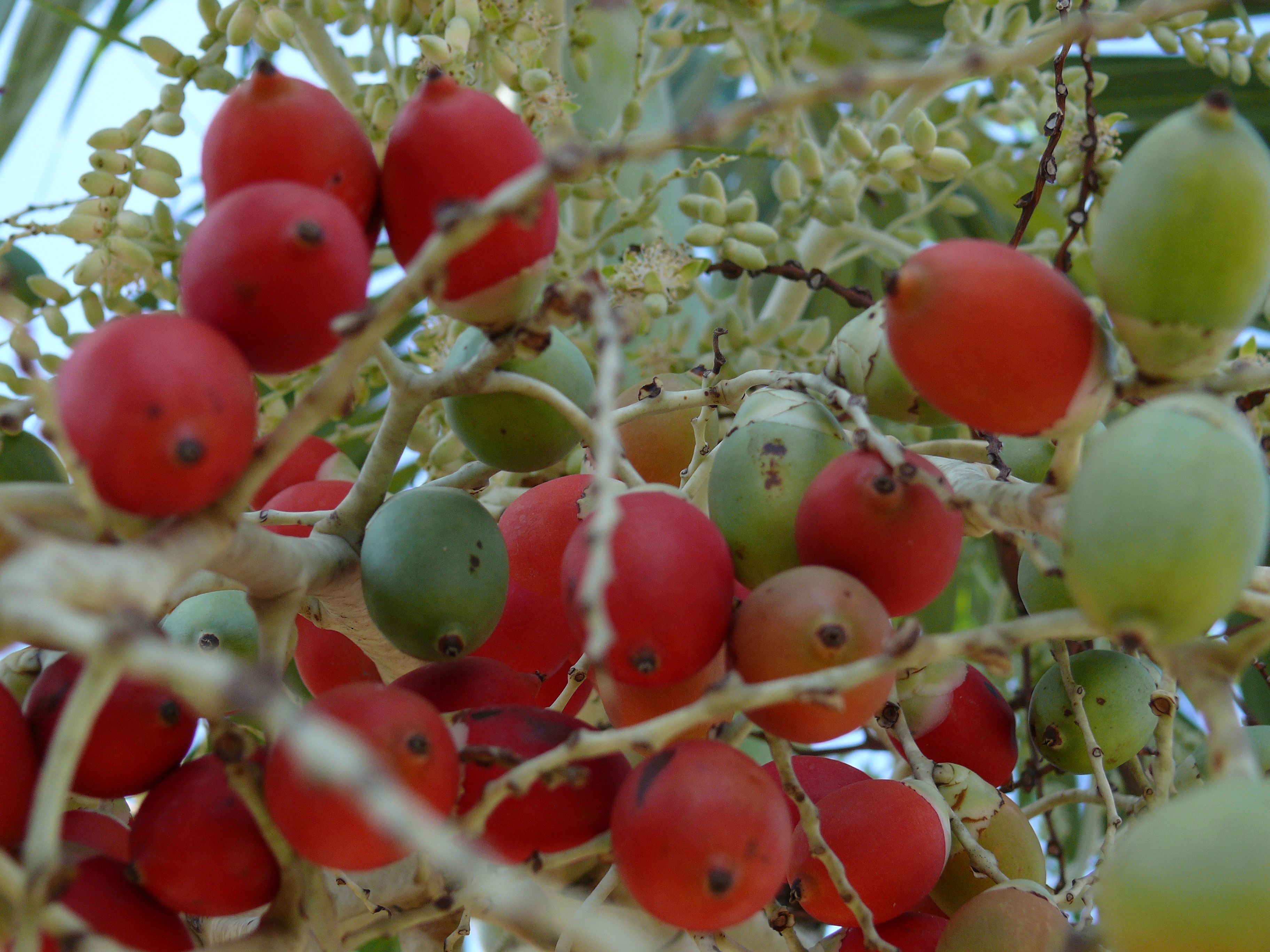 Edible fruit commonly called parépou in Guianese Créole. Bactris gasipaes Photo taken by a lake in Kourou, French Guiana (Amazonia) by Marialadouce on 27 October 2006.